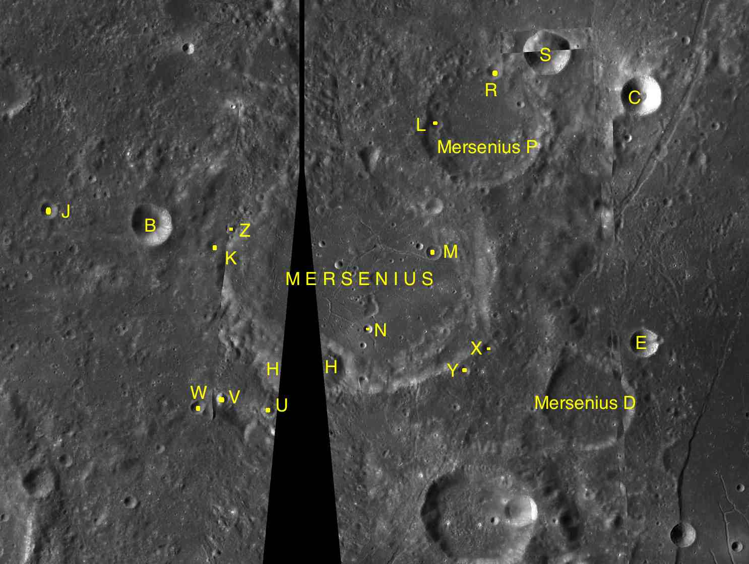 Parts of the charts LAC-92, LAC-93 used for the presentation